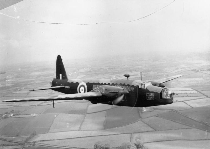 Aircraft of the Royal Air Force 1939-1945- Vickers Wellington. Wellington Mark II, W5379, in flight from Aldergrove, County Antrim, prior to delivery to No. 12 Squadron RAF at Binbrook, Lincolnshire. It was lost over Cologne on 11 October 1941.